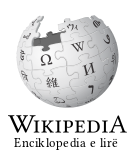 Wikipedia logo 2.0